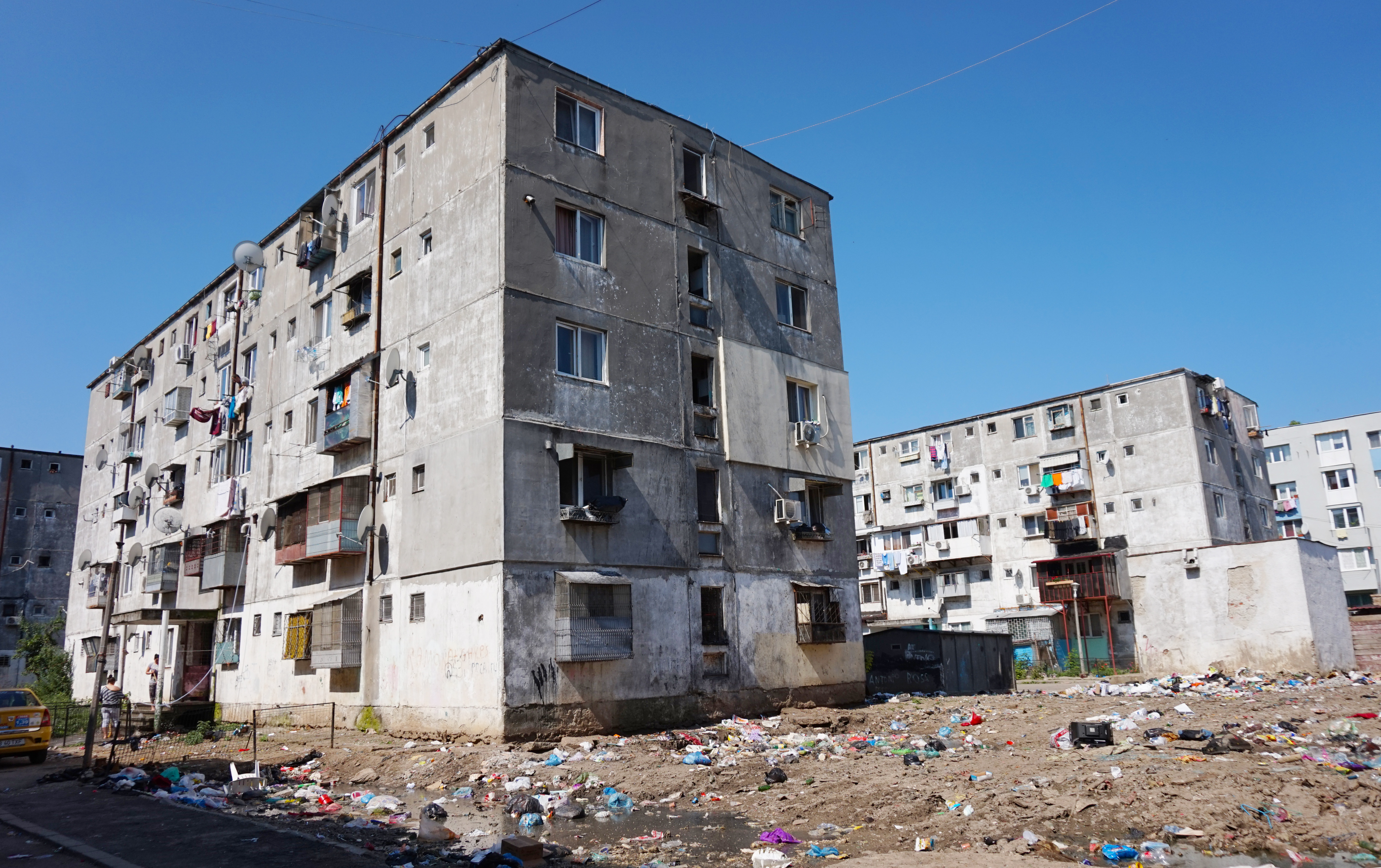 A building in Ferentari area, Bucharest. View is from the street Aleea Livezilor. This photograph was taken with a Sony Alpha a5000.